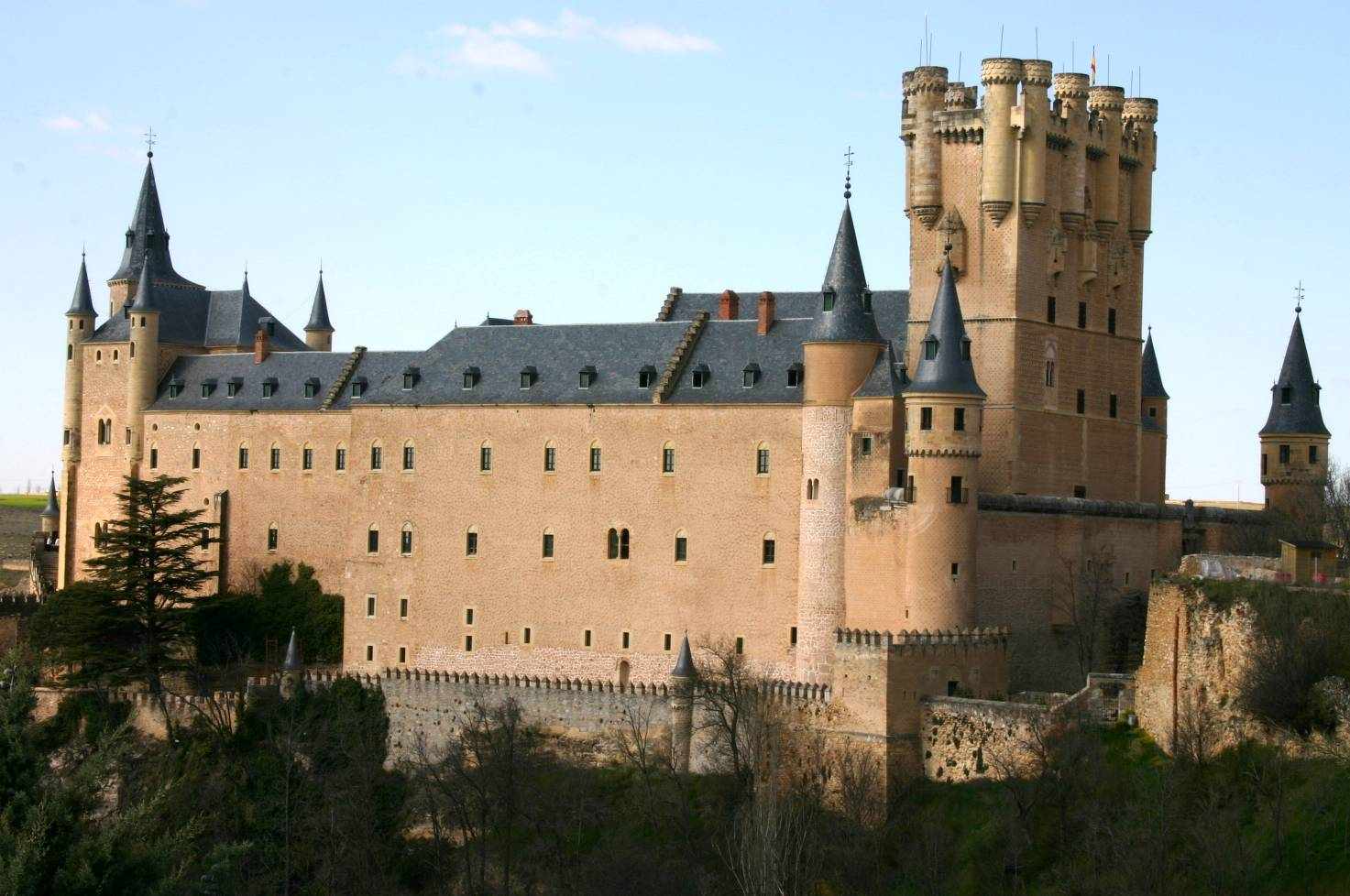 Side view of the Alcazar in Segovia, Spain